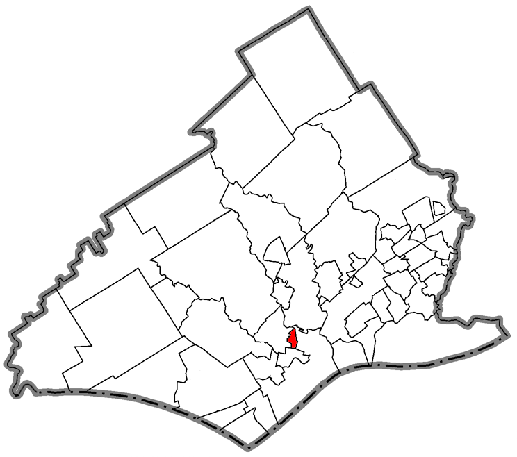 Showing the location within Delaware County, Pennsylvania.